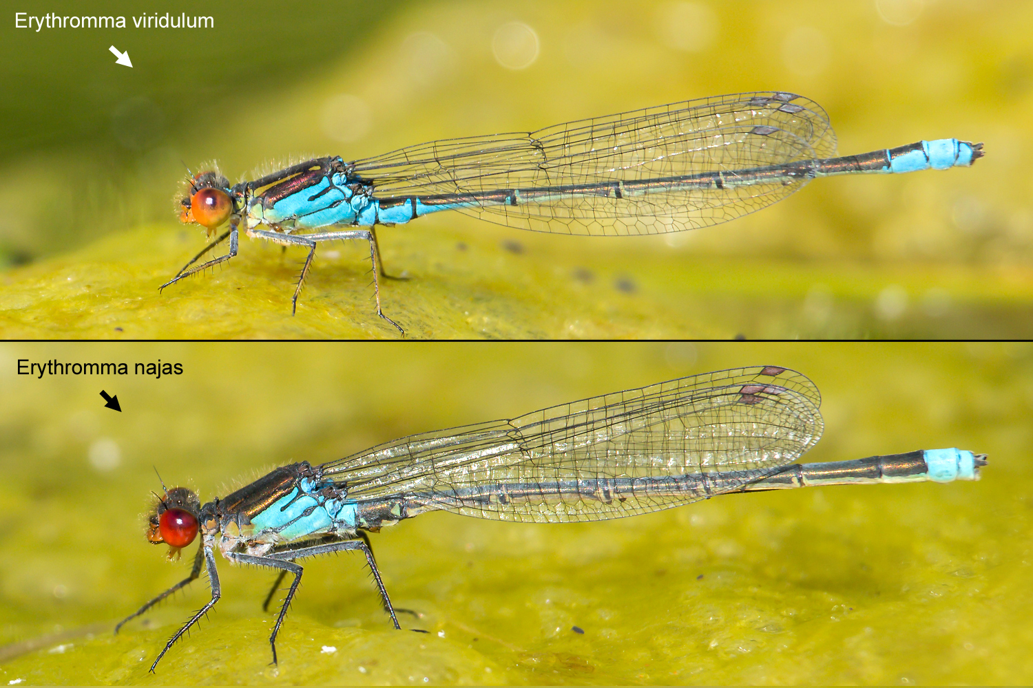 Comparison between male specimens of the closely related damselflies Erythromma viridulum (Small Red-eyed Damselfly; top) and Erythromma najas (Red-eyed Damselfly; bottom). Notice the petty different distribution in the blue markings and some more details. Location (the same habitat): North-eastern Lower Saxony, Germany.